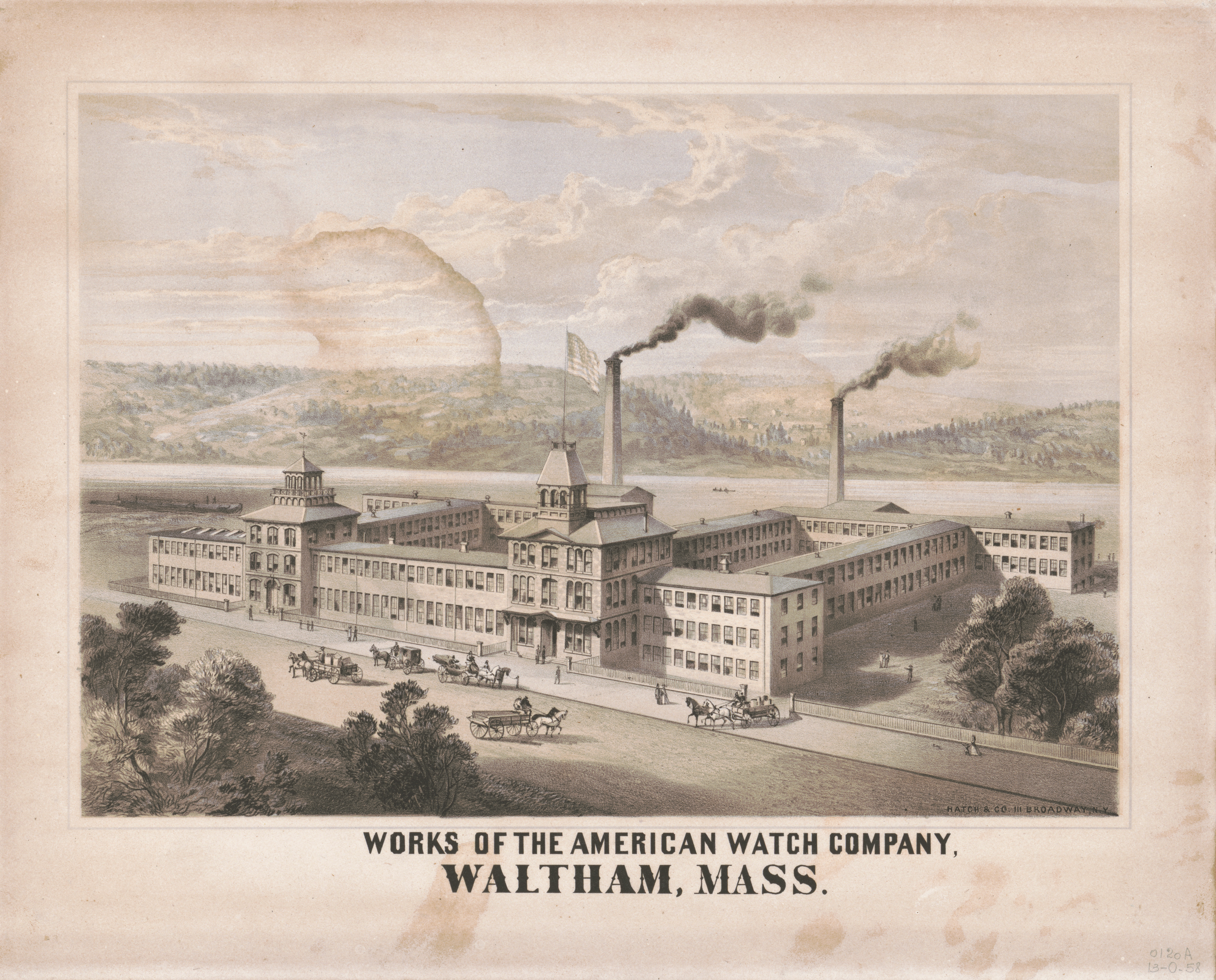 "Works of the American Watch Company, Waltham, Mass. CALL NUMBER: PGA - Hatch & Co.--Works of the American ... (A size) [P&P] REPRODUCTION NUMBER: LC-USZ62-92847 (b&w film copy neg.) SUMMARY: Bird's-eye view, with horses, wagons and carriages in front] MEDIUM: 1 print : lithograph, tinted.